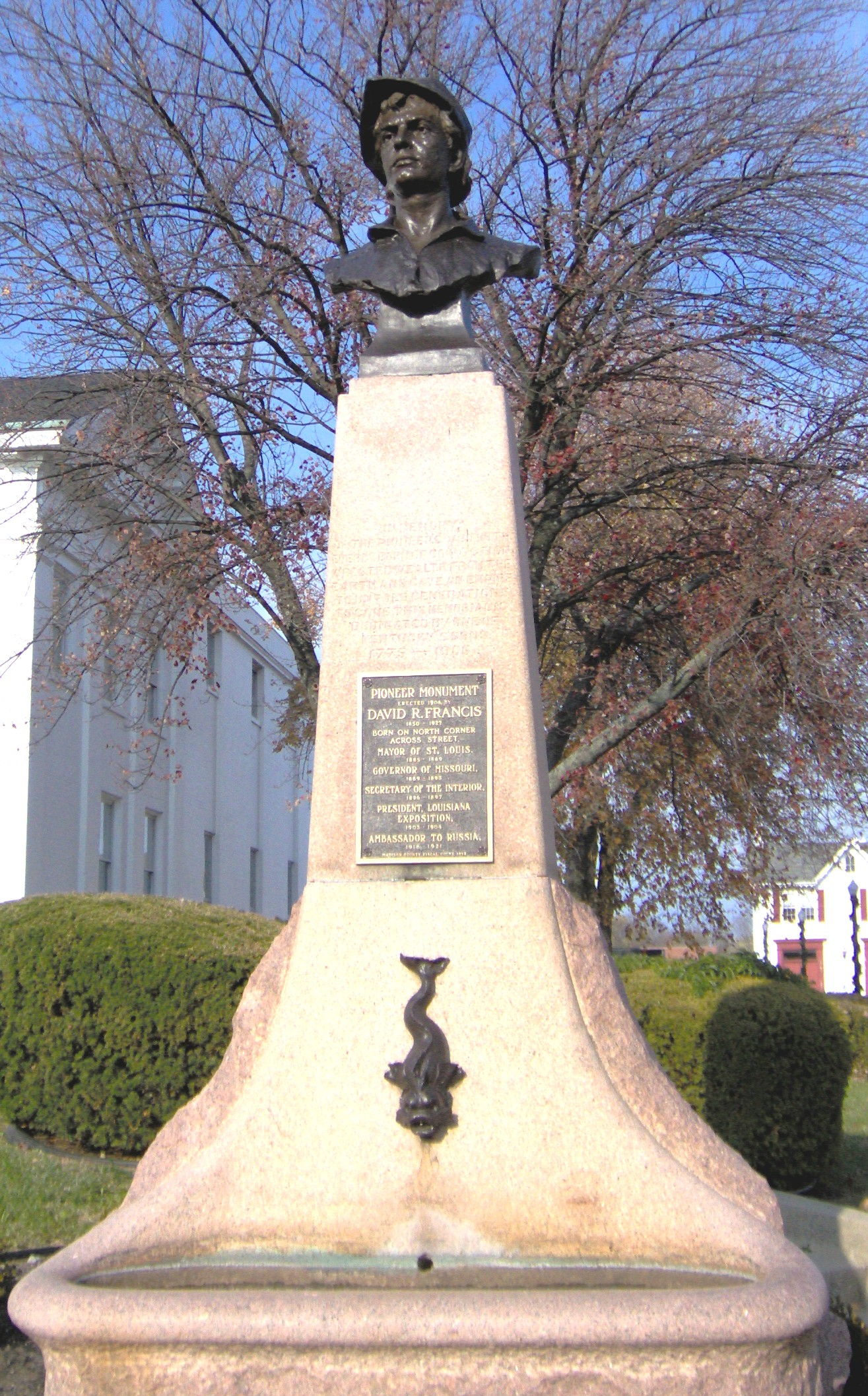 Image of the Pioneer Monument (erected 1906), located at Madison County, Kentucky courthouse. (101 West Main Street, Richmond, Kentucky).